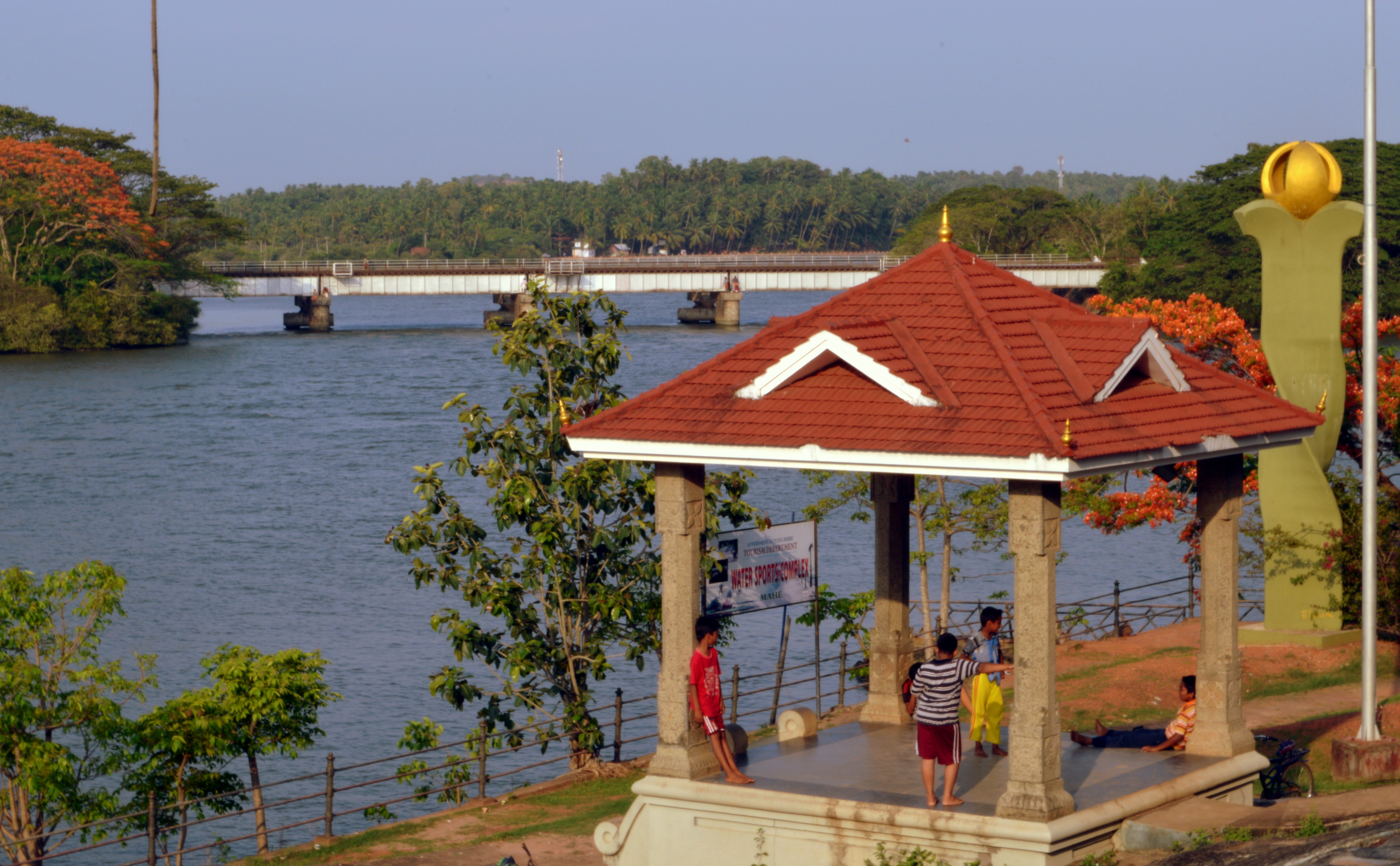 Mahe Boat house, 2 km from the Government house, in the Mahe River welcomes the visitors with speed boats, pedal boats and kayak boats.The location is a serene place on the bank of Mayyazhi River. A well prepared maintained garden is also another attraction of this place.